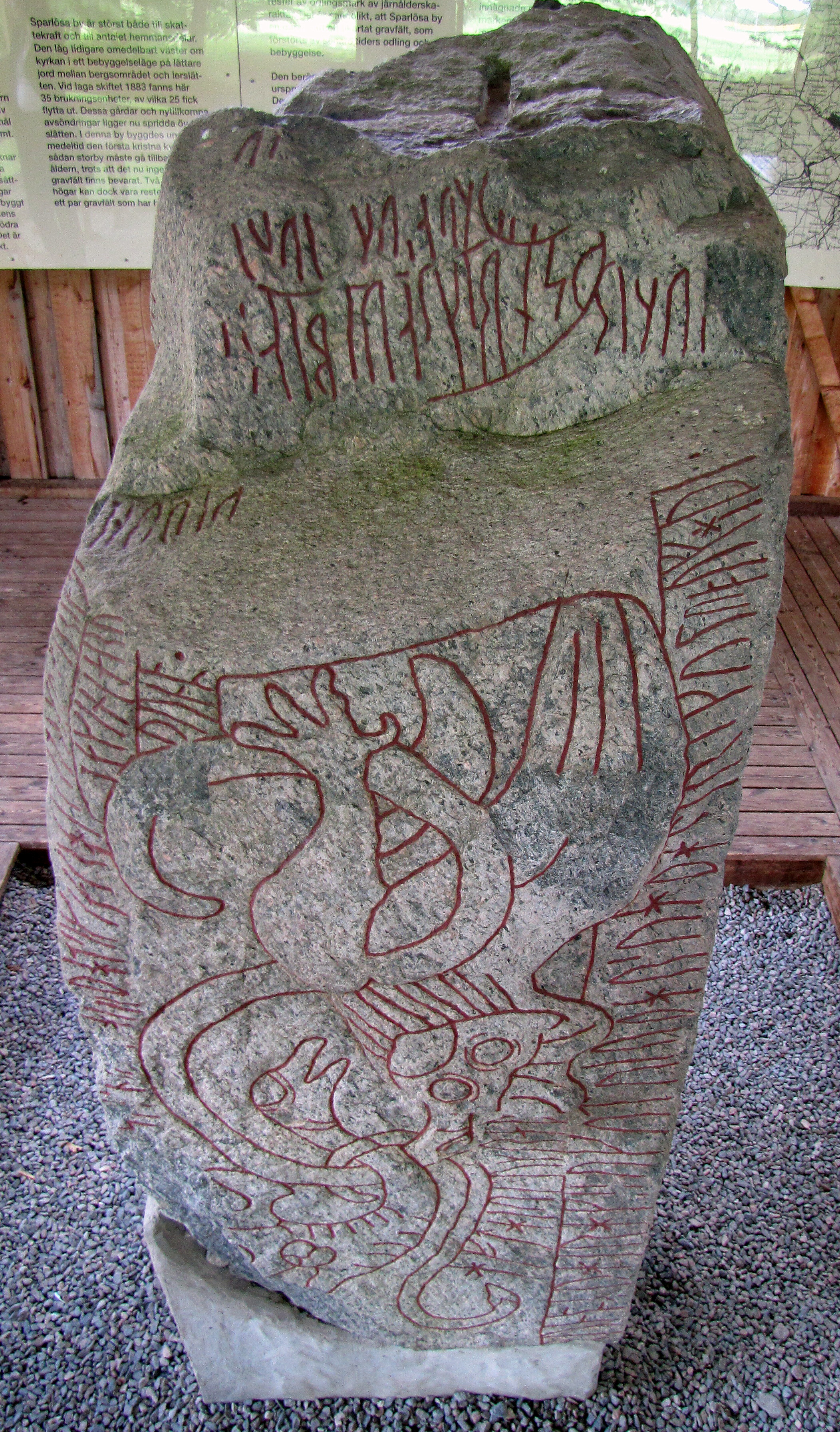 One of the four carved sides of the Sparlösa rune stone.